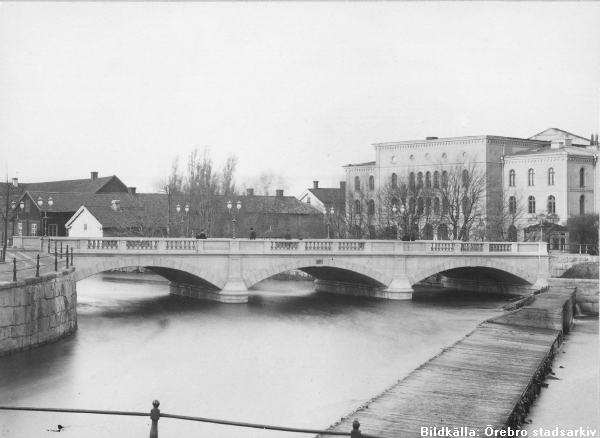 The bridge "Storbron", Örebro, Sweden